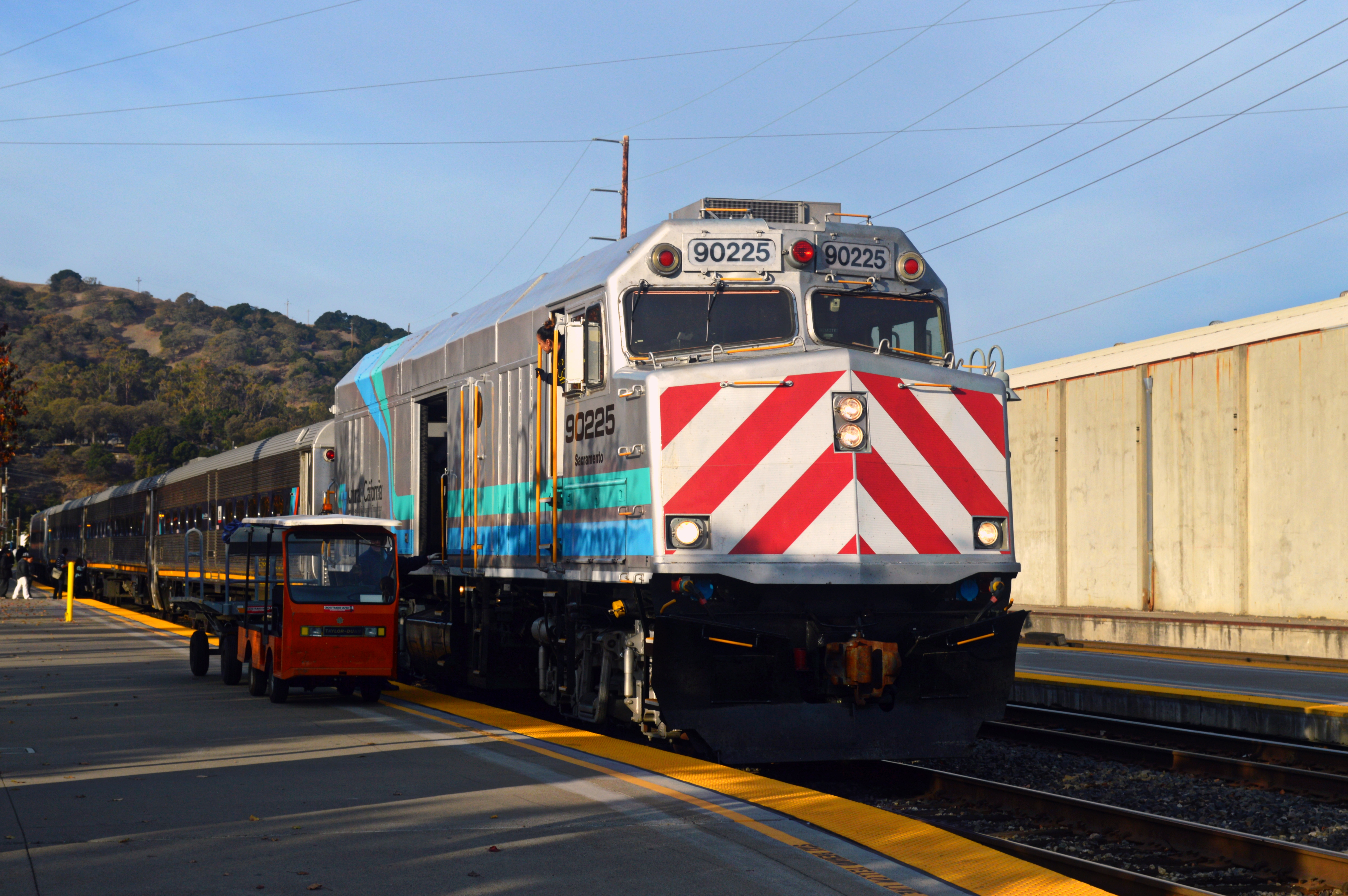 AMTK 90225 leading Amtrak 712 11/28/13